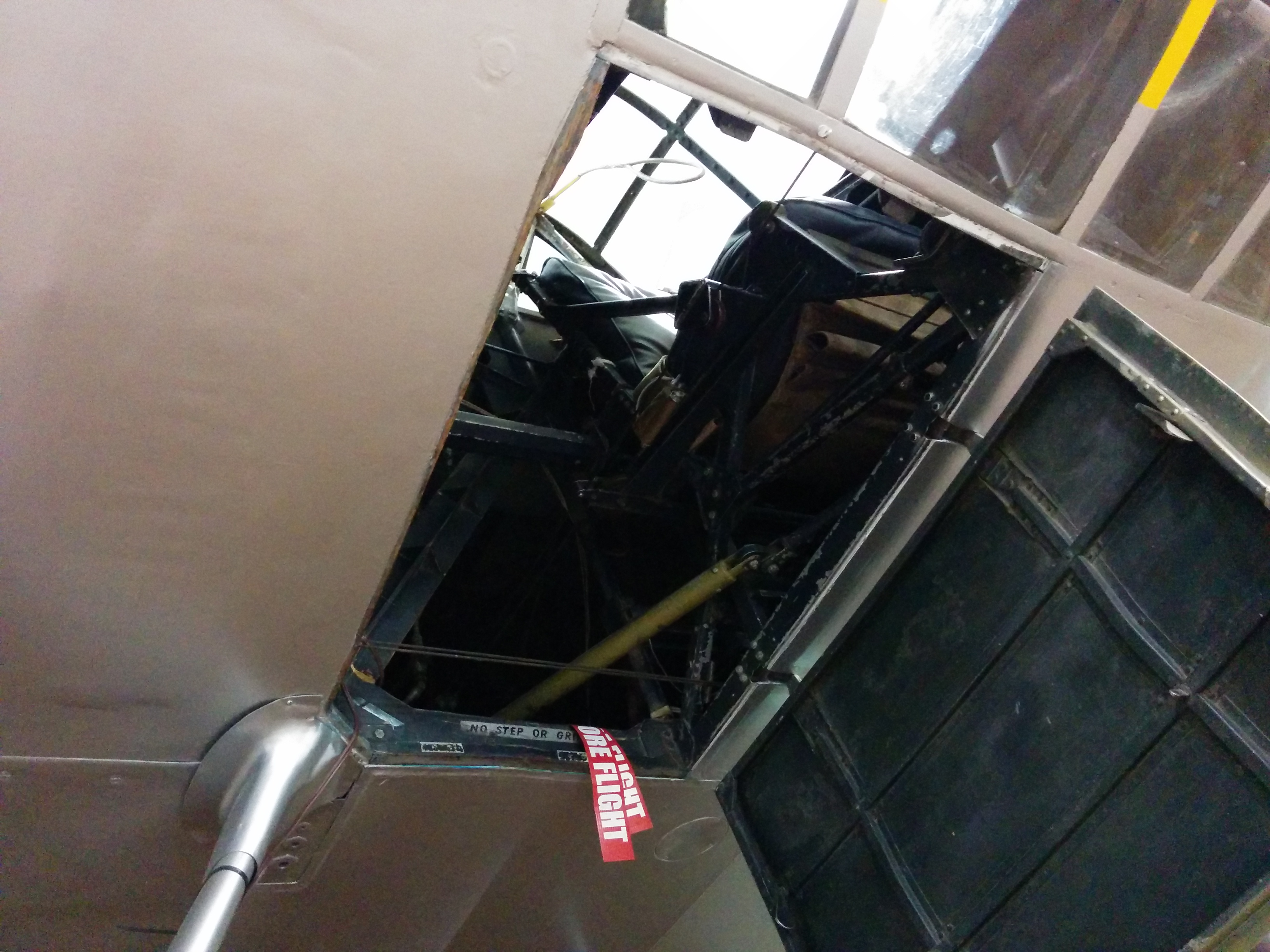 Vought V173 cockpit